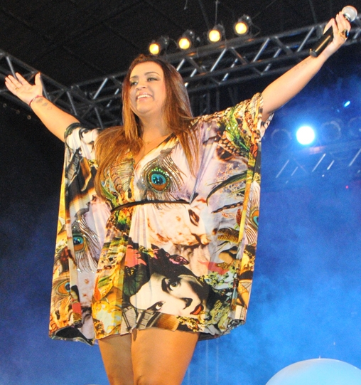 Singer Preta Gil in the LGBT Pride Parade in Acre in 2009.